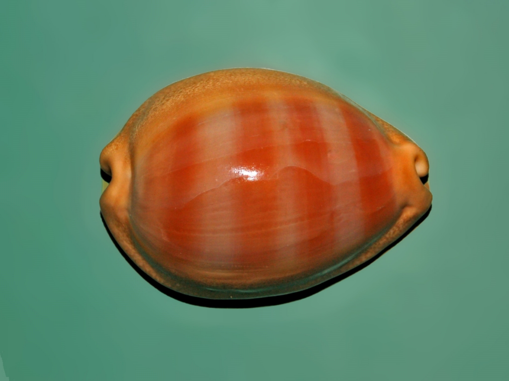 Lyncina sulcidentata - Hawaii